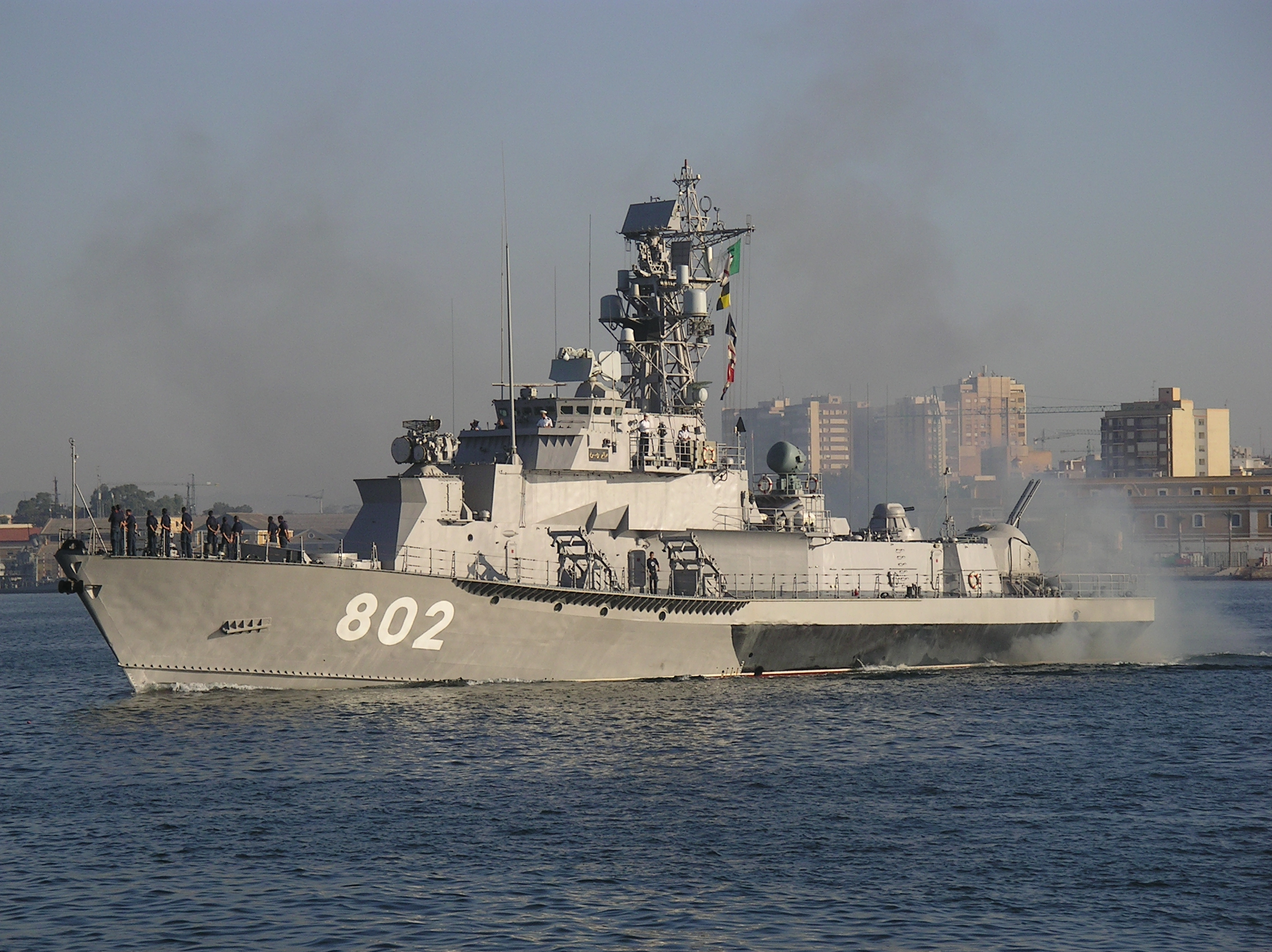 Algerian project 1234E (NANUCHKA II class) missile corvette Salah Rais, former the sovet MRK-23, in Cartagena